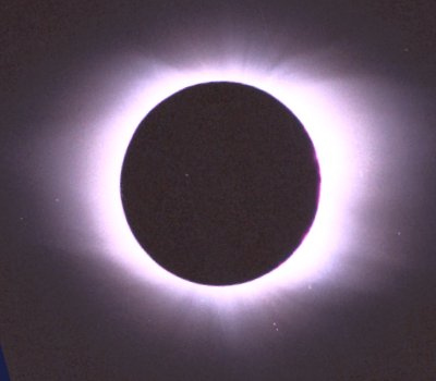 We had a great view of the eclipse, about 66 years after my first! Here is a picture to remind me of it.